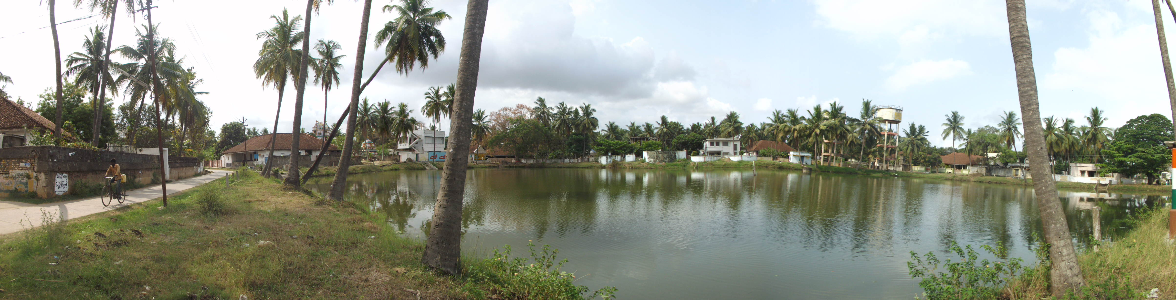 Sri Veeresalinga Kavi Samaja Library of Kumudavalli, Andhrapradesh